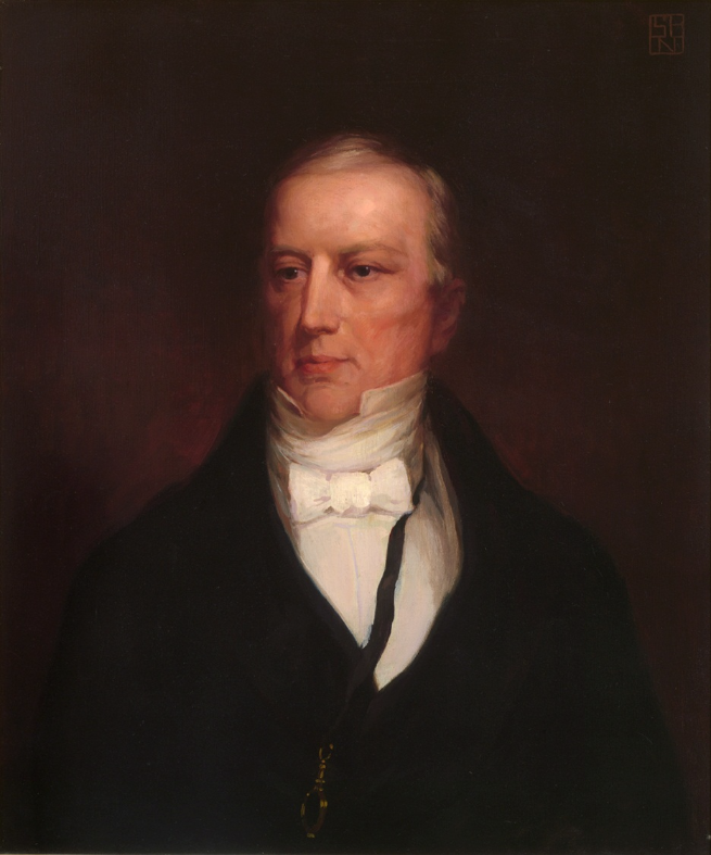 Washington, D.C., artist Spencer Baird Nichols received the 1911 commission to replace the Andrew Stevenson portrait on paper previously in the House Collection. The original work, which had been acquired in 1880, was given to the Virginia state legislature. The bust-length portrait is similar in pose and composition to a lithograph by Thomas Fairland, also in the House Collection. The artist attended the Corcoran School of Art and was known as a muralist as well as an illustrator and portraitist.